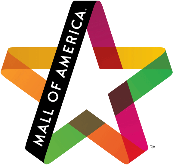 Logo of Mall of America.